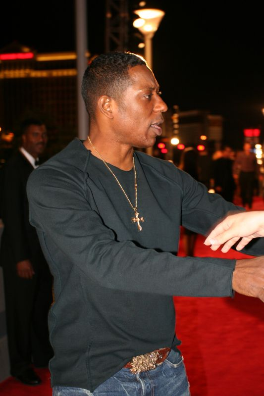 Actor Orlando Jones 7UP guy Drumline in a number of television shows